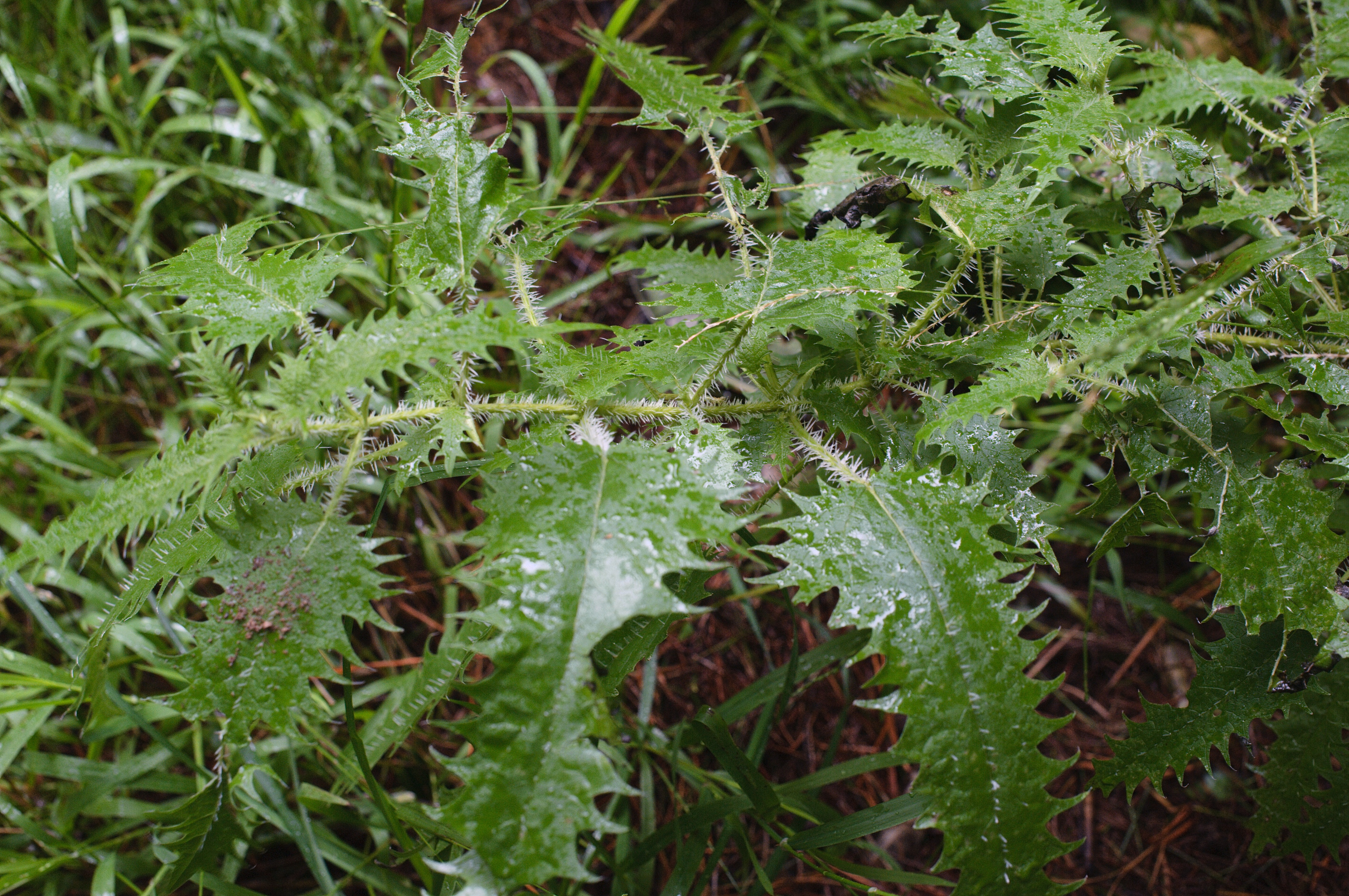 Ongaonga flourishing in some recently cleared bush in Karori